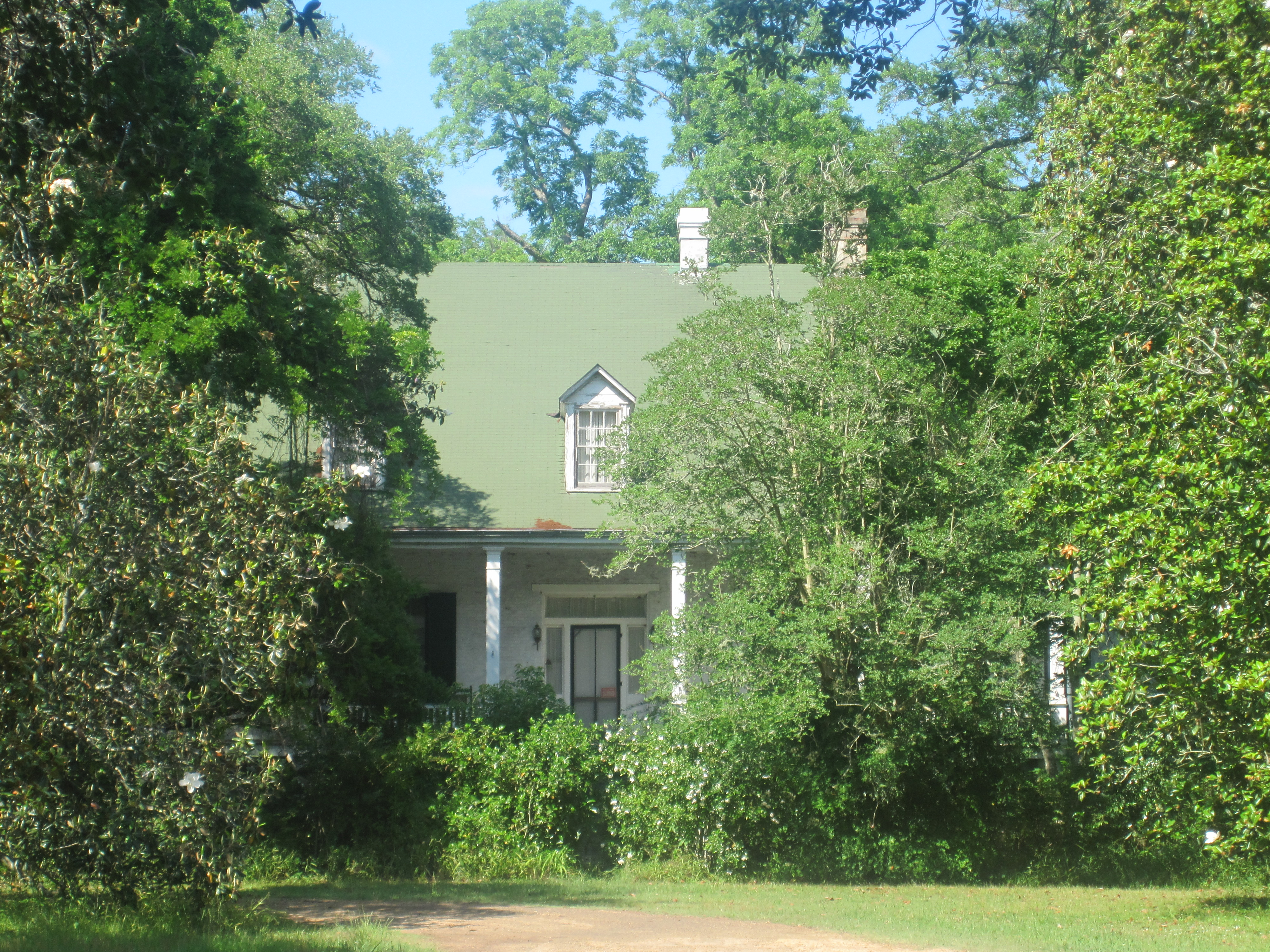 Magnolia Plantation — Derry, Louisiana. I took photo with Canon camera.